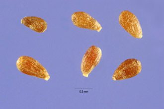 Artemisia absinthium L.